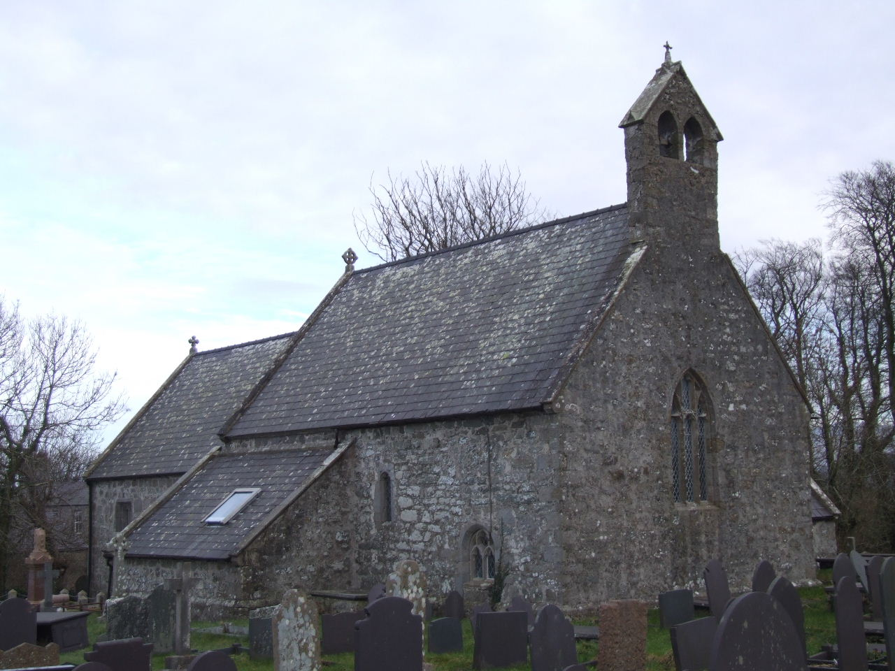 Eglwys Credifael church, Penmynydd, Anglesey, Wales.